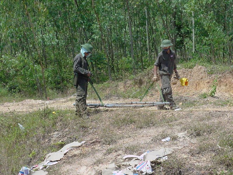 Vietnam: Searching for landmines